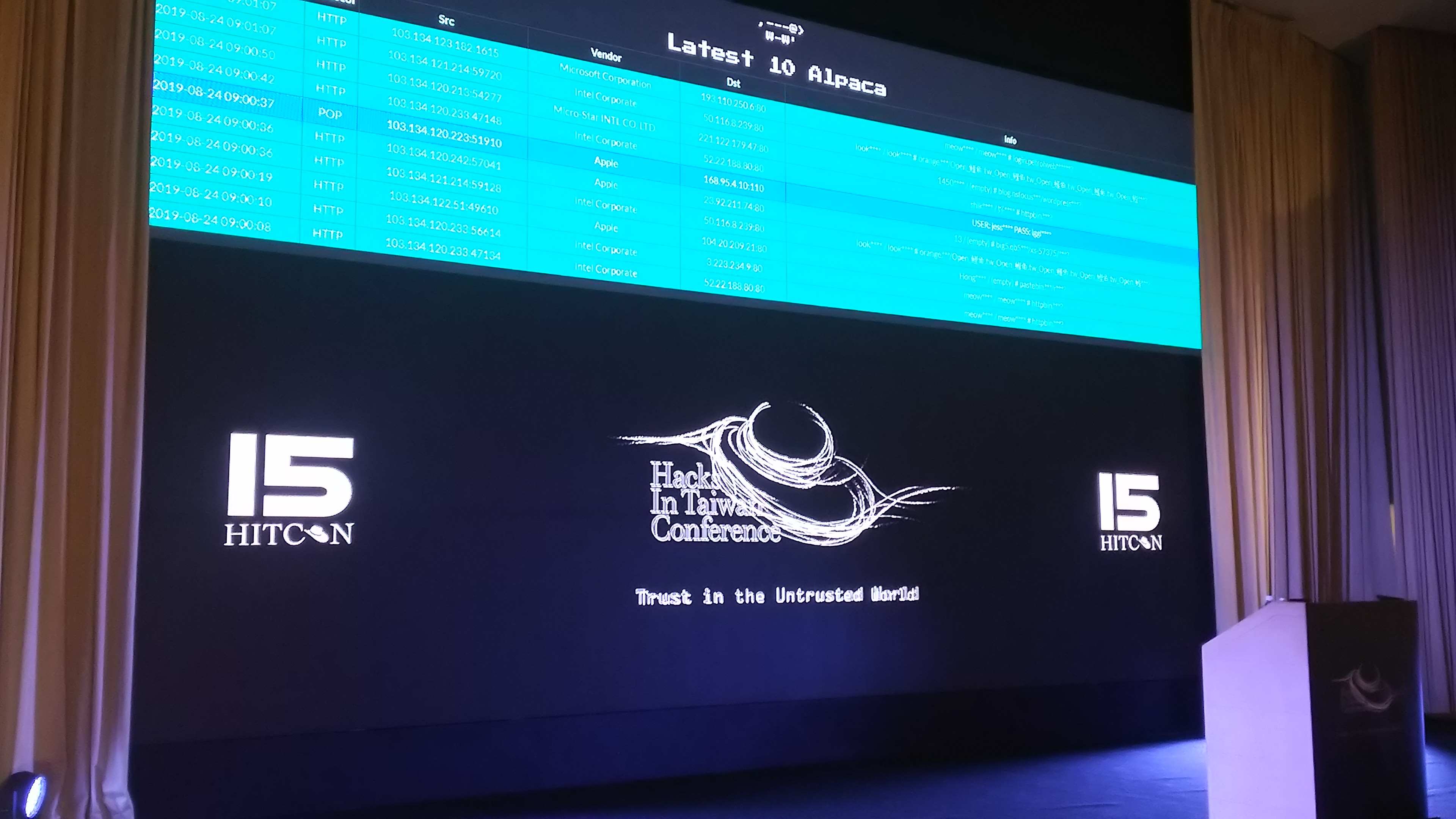 Title：The sheep wall build in HITCON CMT 2019 Date：2019.08.23~08.24 Place：Academia Sinica, Taipei City, Taiwan